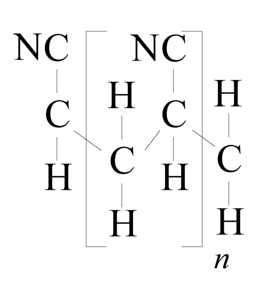 Polyacrylonitrile structure